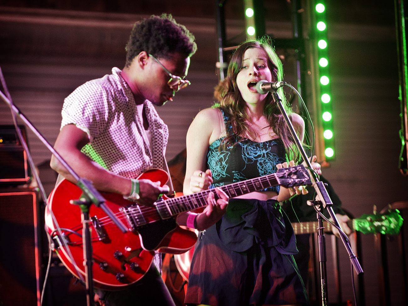 Wardell (Sasha & Theo Spielberg) JUBILEE MUSIC & ARTS FESTIVAL — June 7, 2013 In the Arts District, Los Angeles.